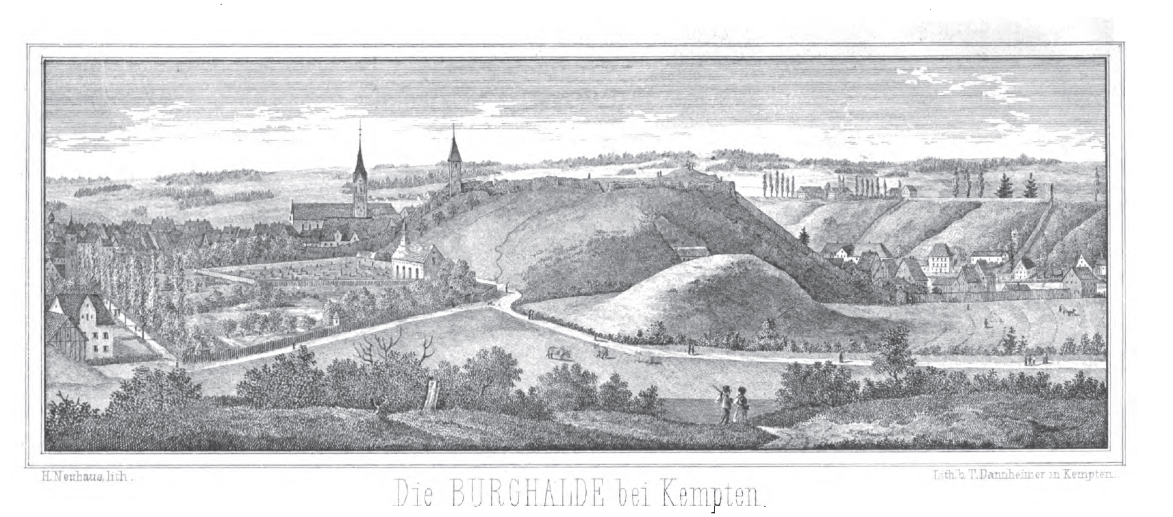 lithography of Burghalde mountain of Kempten, Bavaria